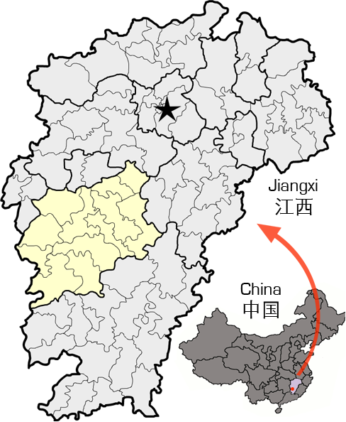 Map showing the location of Ji'an within Jiangxi Province China